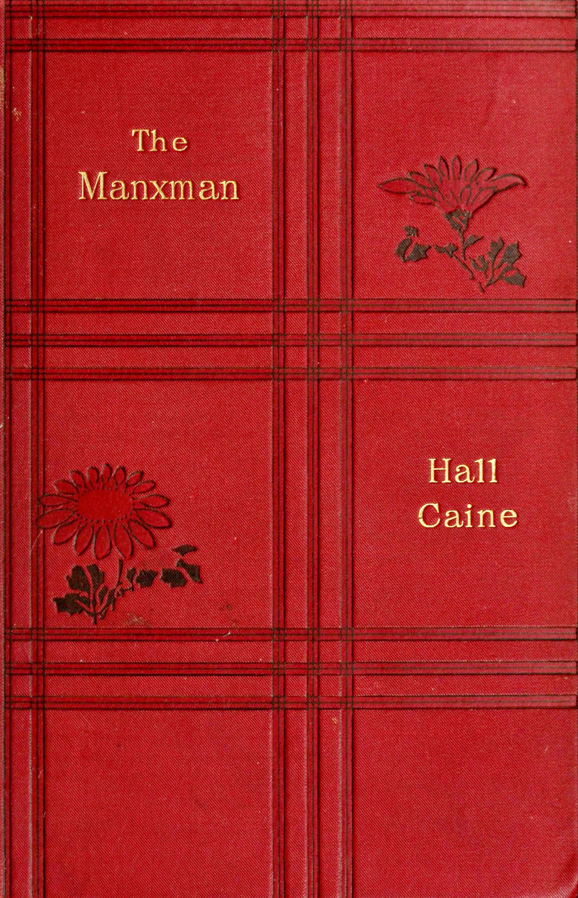 The Manxman by Hall Caine, 1st edition cover.